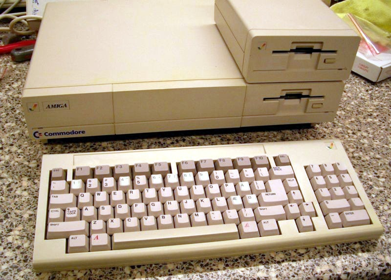 Commodore Amiga 1000